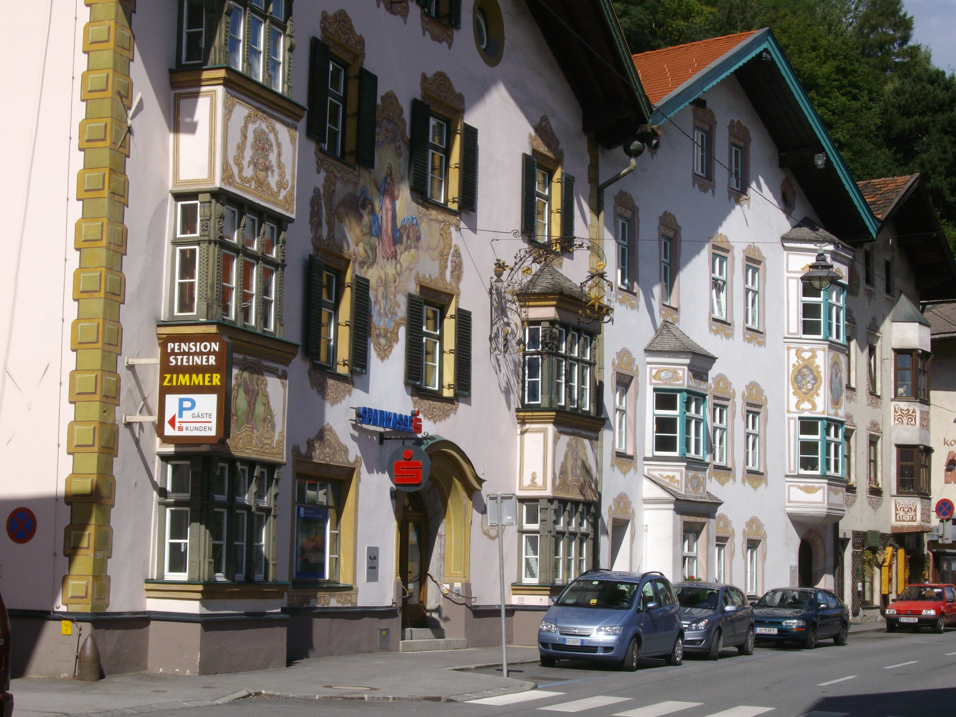 Austria, Tyrol (state), Matrei am Brenner.Typical painted houses.